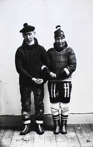 Rasmus Storm Josva Berthel Berthelsen (1827-1901), editor, poet, and educator from Greenland, with his wife Sara (1842-)